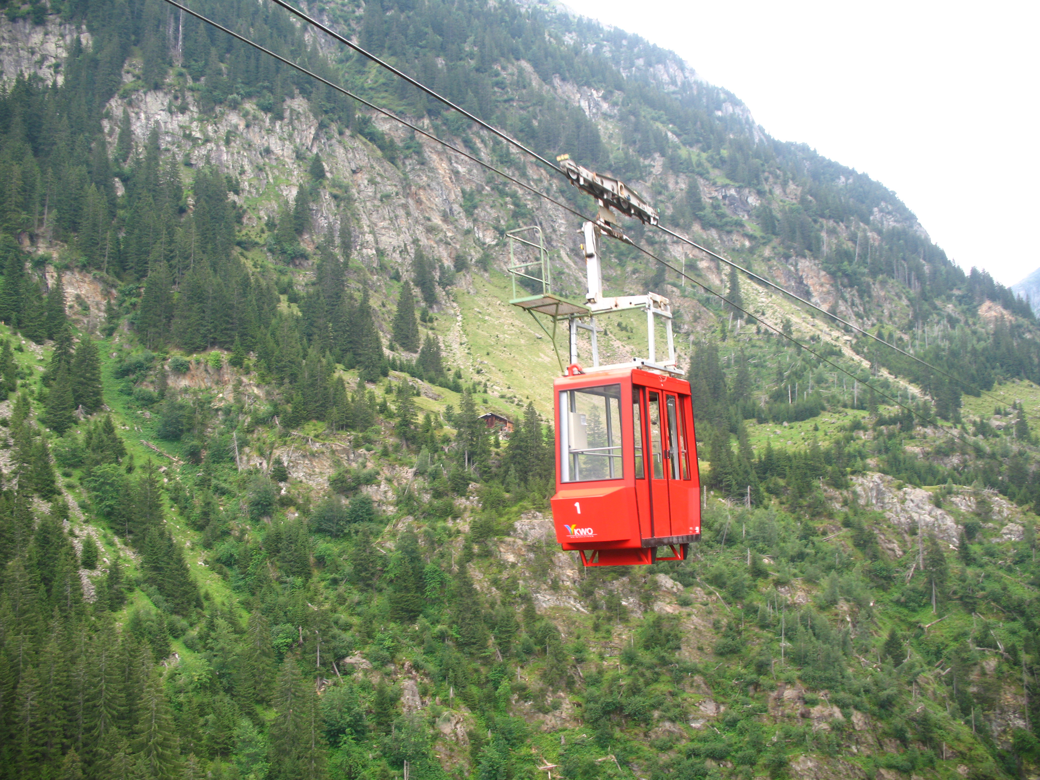 View of a / from the Trift cable car, Gadmen, Switzerland